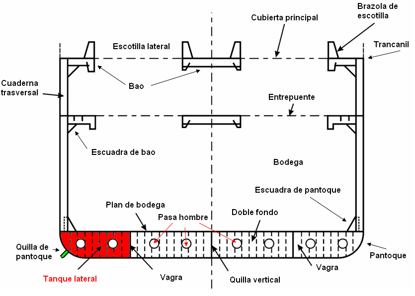 midship section names (spanish)